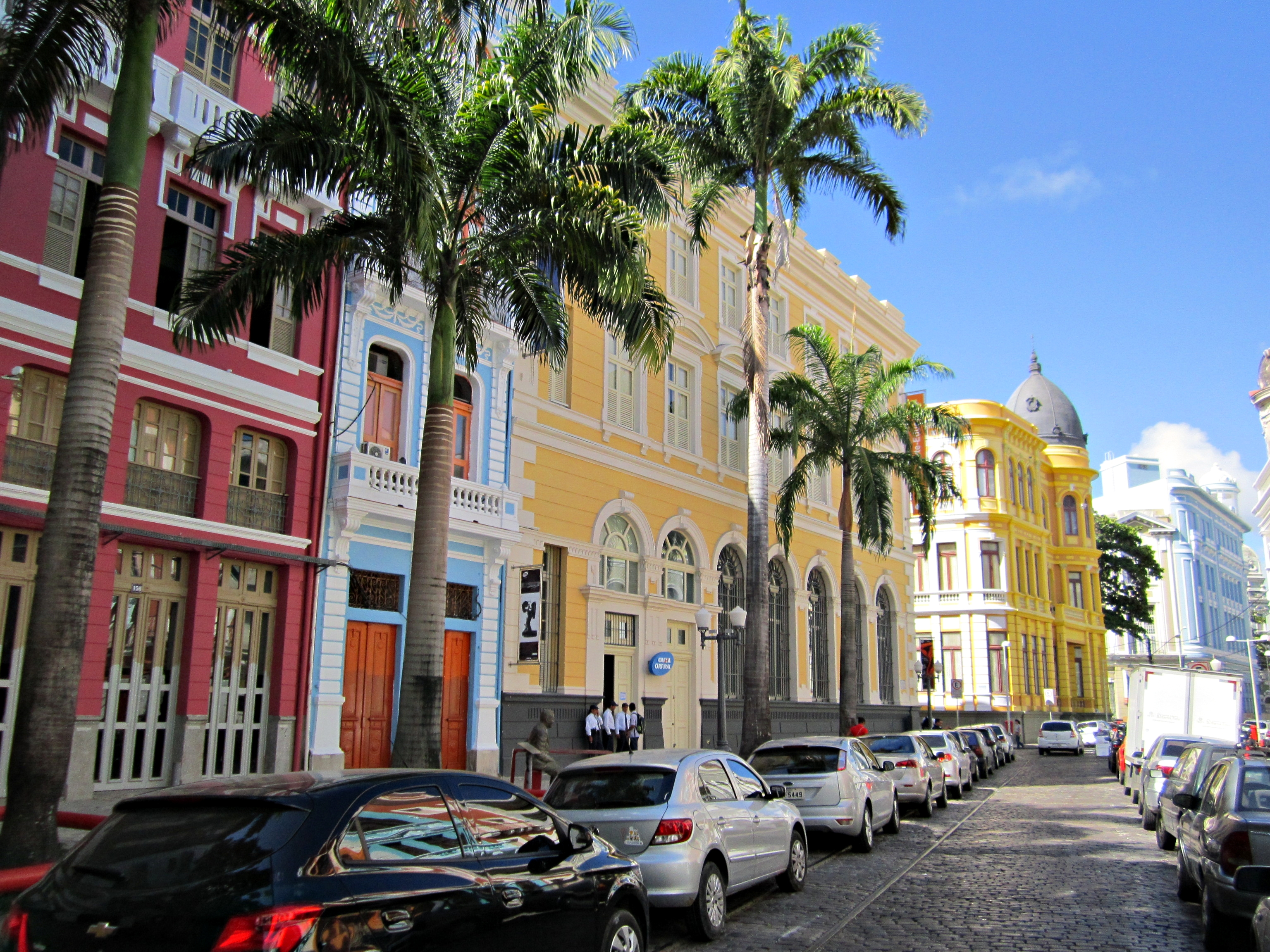 Rua do Bom Jesus - Recife Antigo - Recife, Pernambuco, Brasil